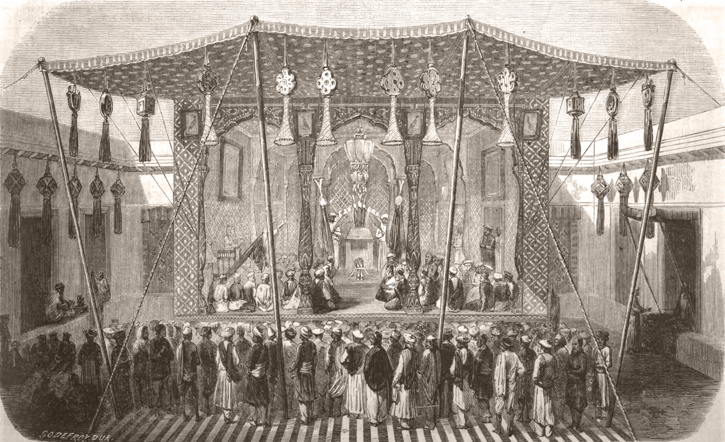 Muharram procession in Lahore, Pakistan. Illustration from L'Illustration, Journal Universel, No 765, Volume XXIX, October 24, 1857.